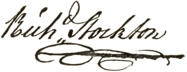 Richard Stockton's signature